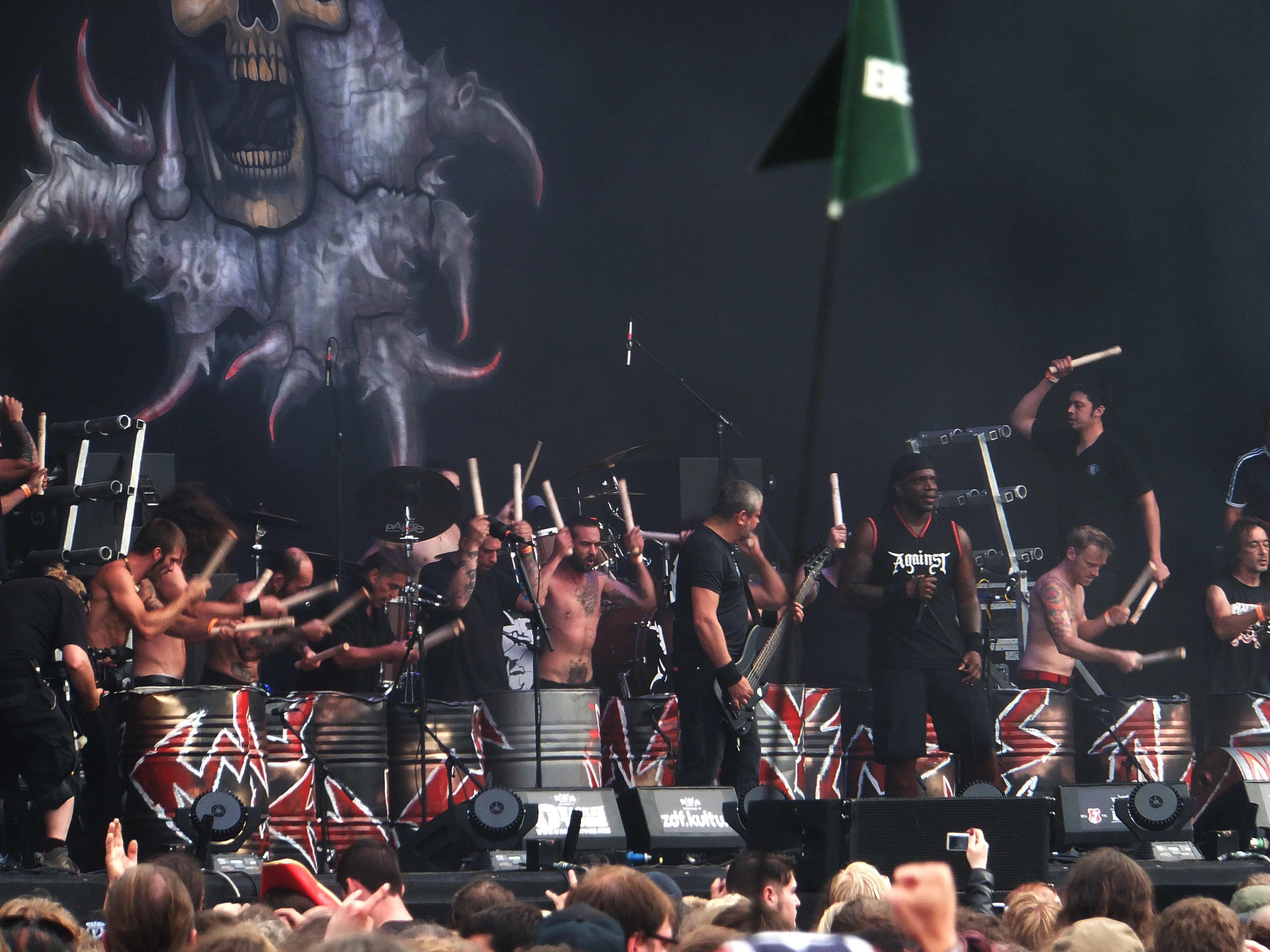 Sepultura and Les Tambours du Bronx at Wacken Slam at Wacken Open Air 2012